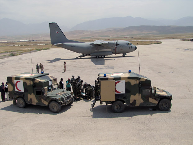 100510-F-5188L-00 MAZAR-E SHARIF, Afghanistan -- Afghan National Army and U.S. medics load patients onto the C-27 Spartan during a Medical Evacuation mission from Mazar-e-Sharif to Kabul on May 10, 2010. (US Air Force photo by Capt. Robert Leese/ RELEASED).